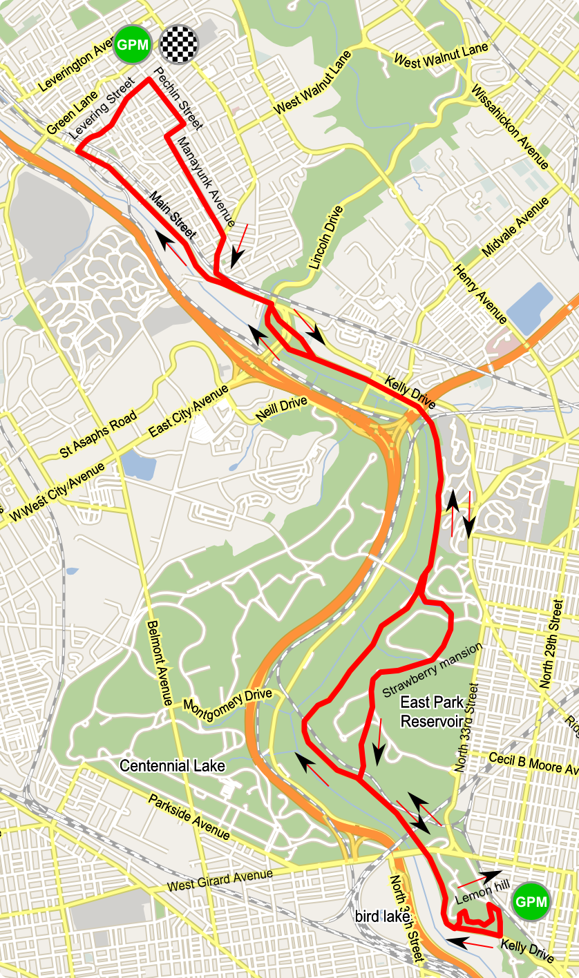 Map of the circuit of Philadelphia Cycling Classic (men and women) for 2016 and 2015